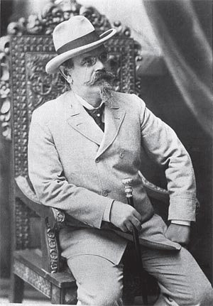 Photo of Peter Demens